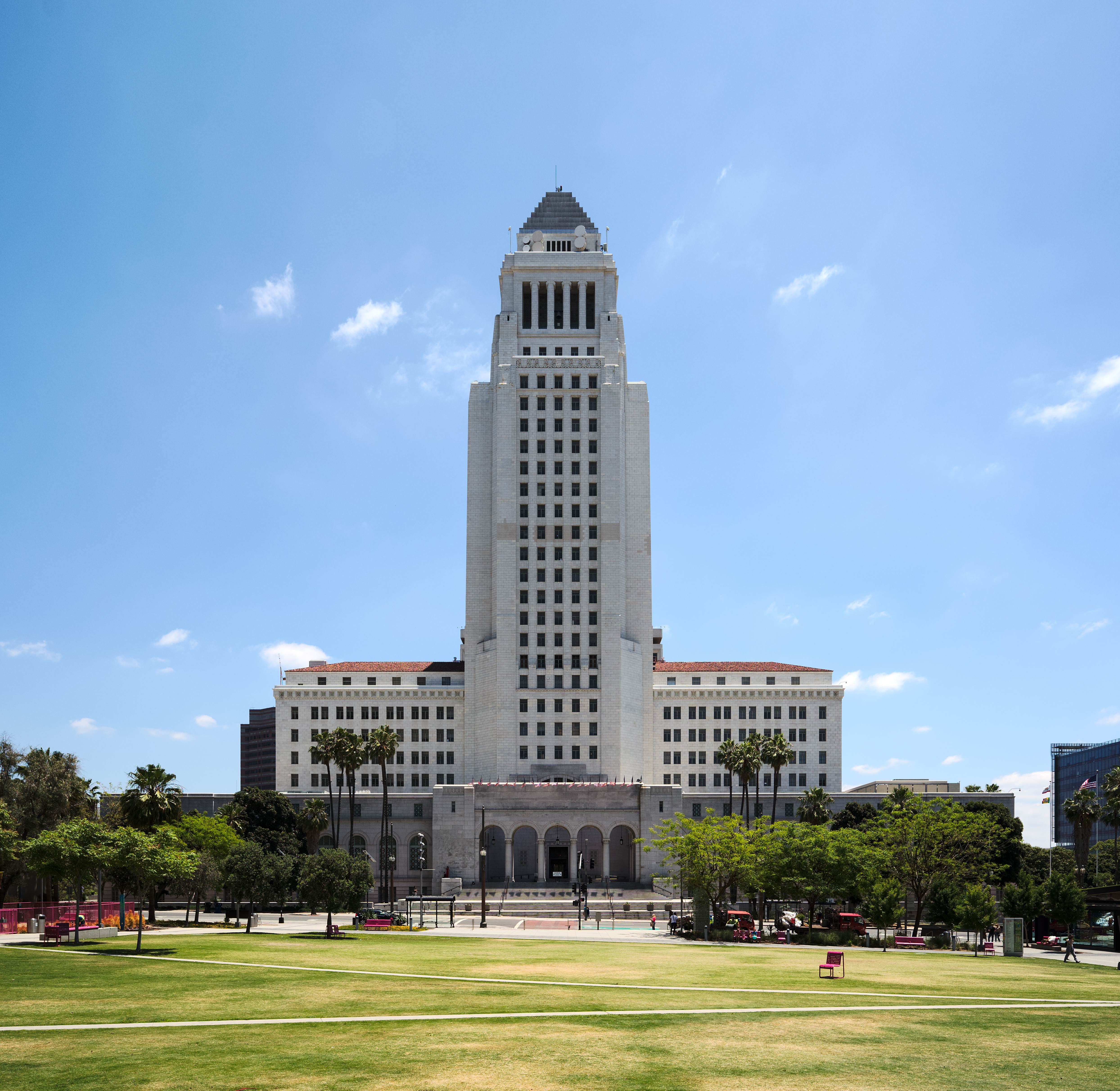 The Los Angeles City Hall is the seat of the government of the city of Los Angeles.